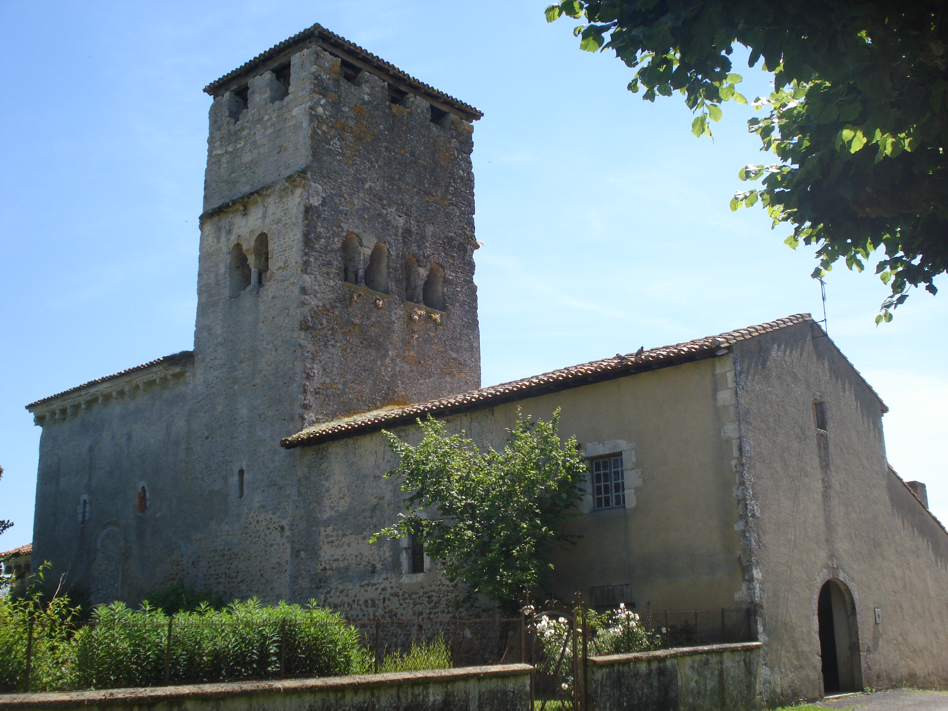 Church of Bostens (Landes, Fr)